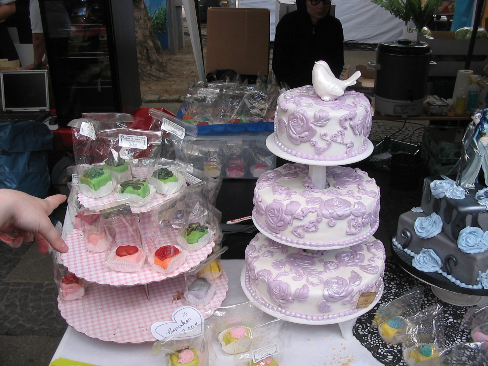 vegan cake and cupcakes by Vegan Wondercakes (Kim Wonderland Kalkowski) at Veggie Street Day 2012 in Dortmund